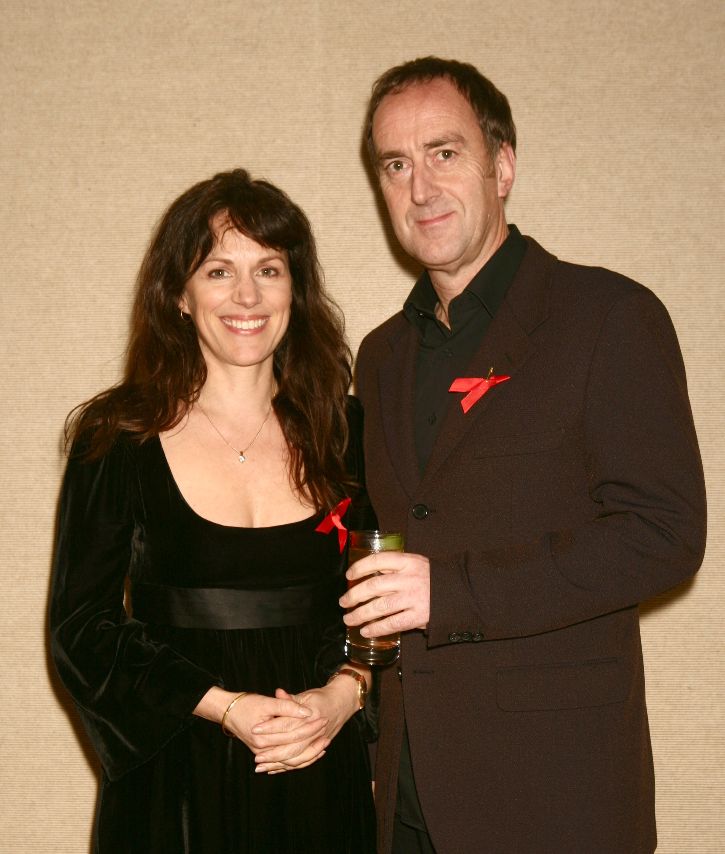 Lise Mayer and Angus Deayton Lighthouse Gala Auction in aid of Terrence Higgins Trust. Please attribute photo to Piers Allardyce